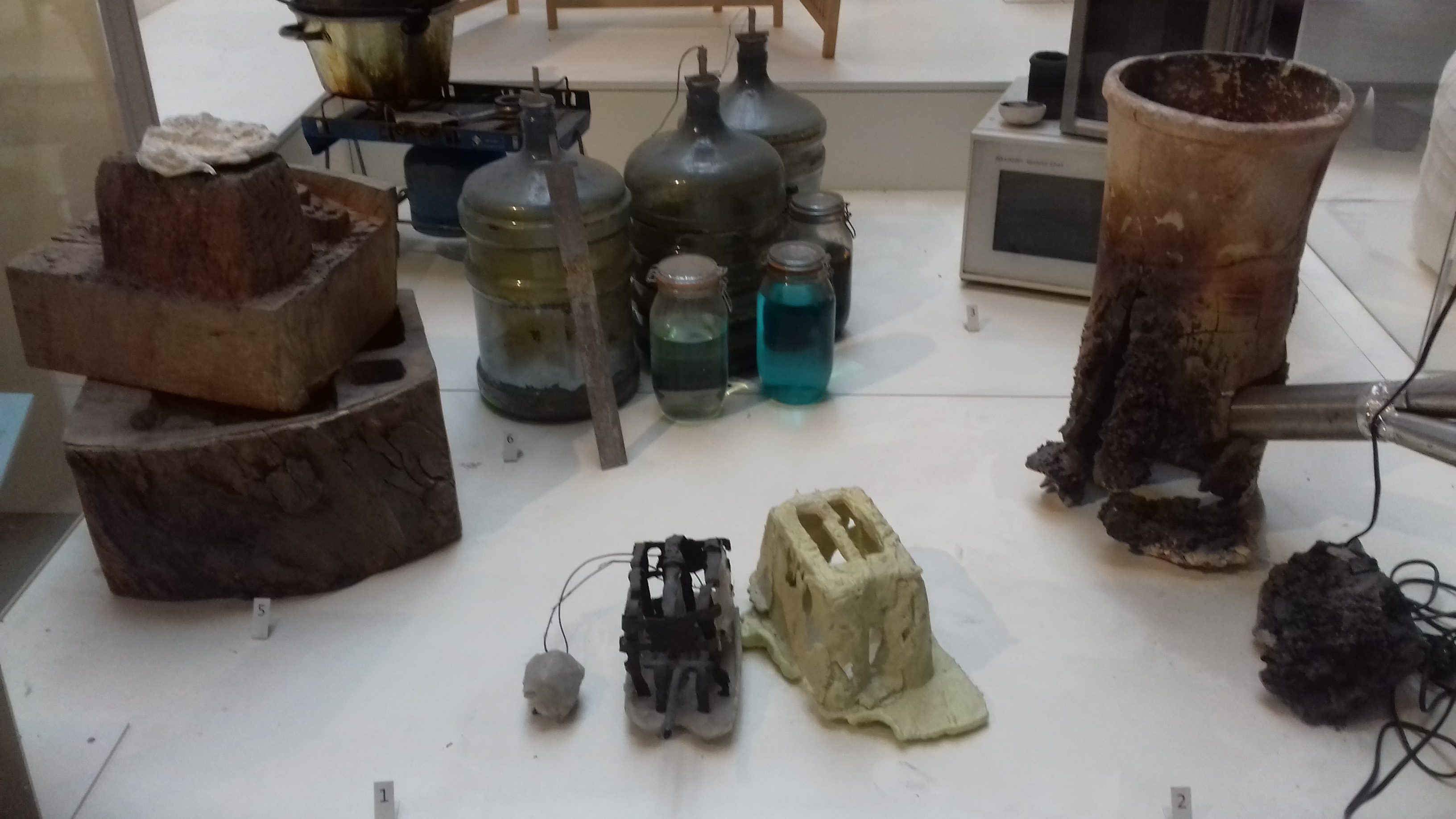 "The Toaster Project" installation in the Victoria and Albert Museum, London, gallery 76 "Design since 1945". Illustrates an MA design project by Thomas Thwaites to construct a toaster by sourcing, refining and processing the materials (copper steel, mica, plastic and nickel) himself